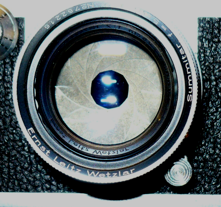 10 blade diaphram of Leitz Summitar 50/2